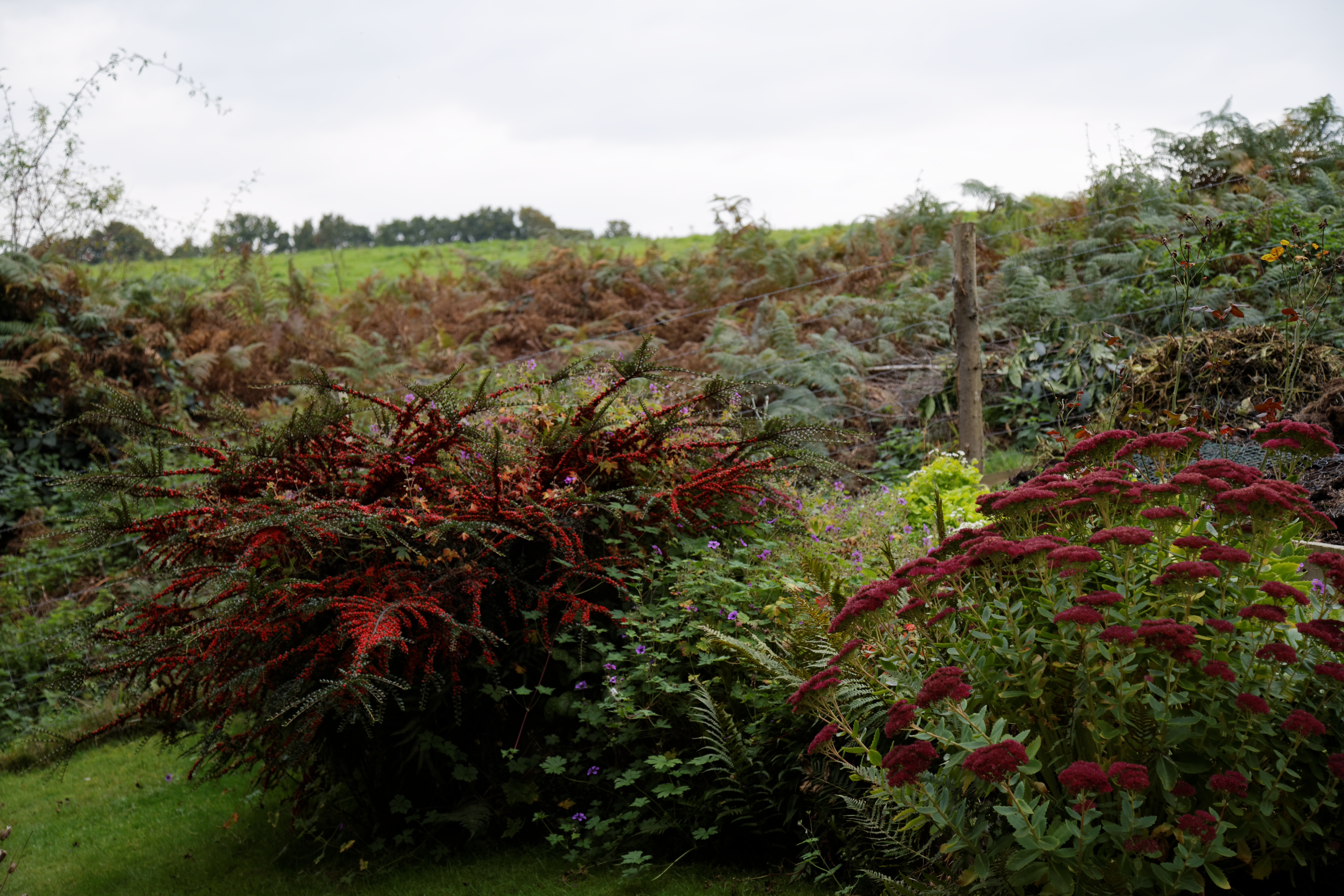 Cotoneaster horizontalis and sedum in a private garden in the the civil parish of Nuthurst, West Sussex, England.Software: RAW file lens-corrected, optimized and converted to JPEG with DxO OpticsPro 10 Elite, and likely further optimized and/or cropped and/or spun with Adobe Photoshop CS2.